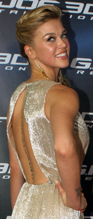 Adrianne Palicki at the G.I. JOE: RETALIATION - Red carpet movie premiere, Event Cinemas, Sydney, Australia, cropped